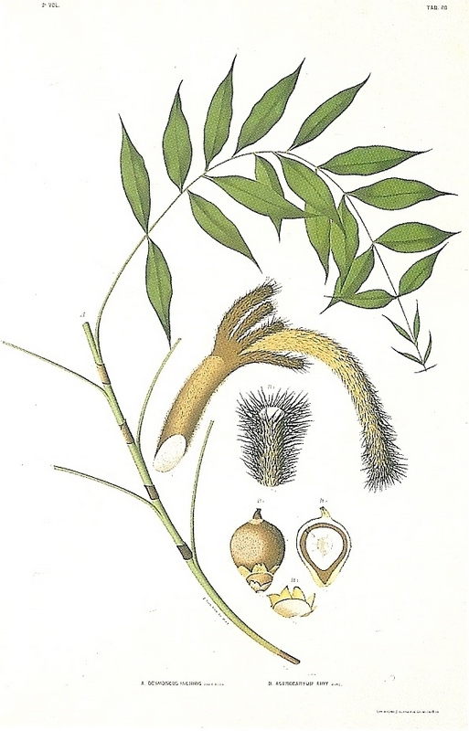 A. Desmoncus inermis; B. Astrocaryum aculeatissimum (syn. Astrocaryum ayri) (litografia s/ papel; 60 x 39 cm)